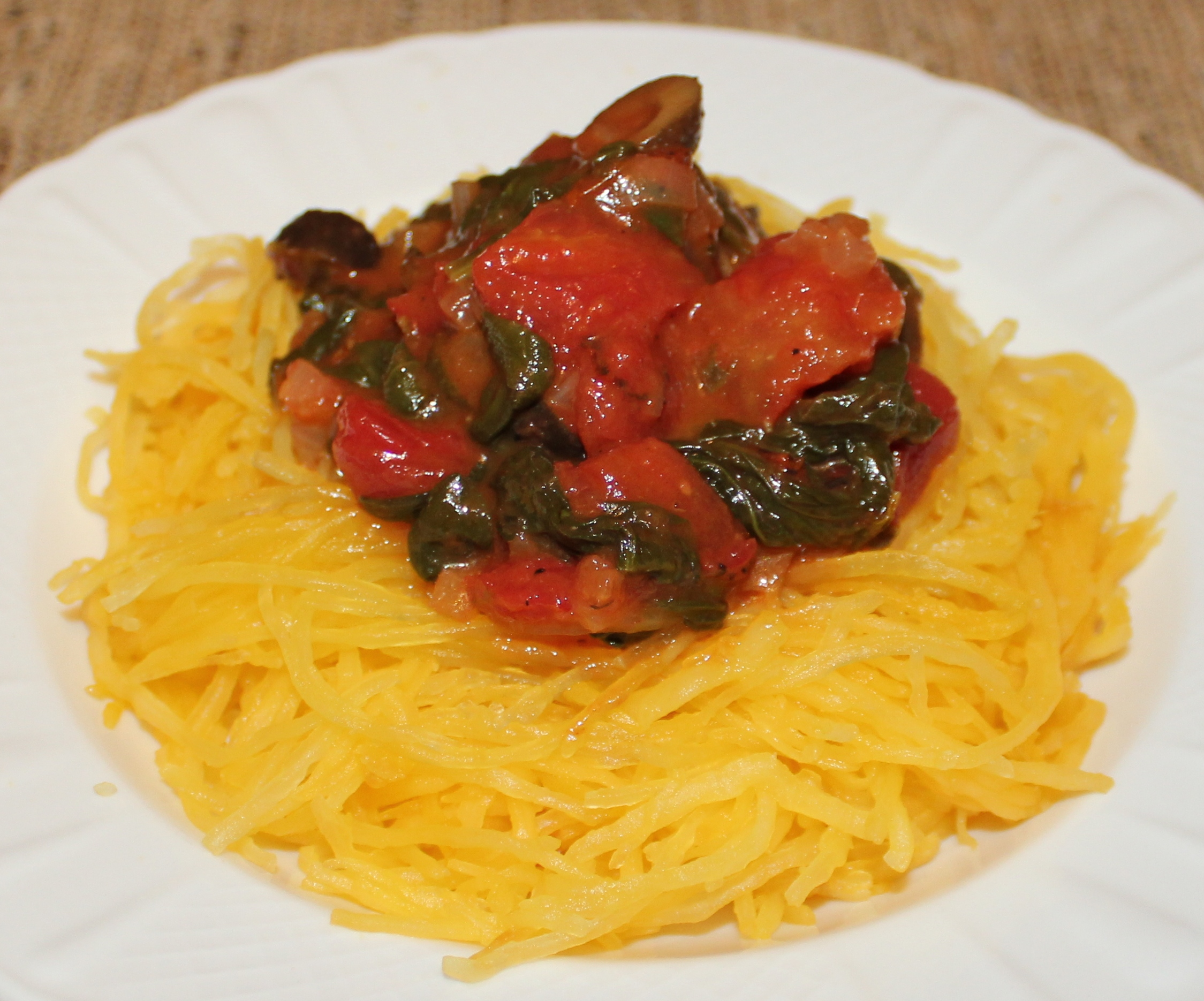 Spaghetti Squash with Fire-Roasted Tomato, Olive, and Baby Spinach Sauce recipe available at